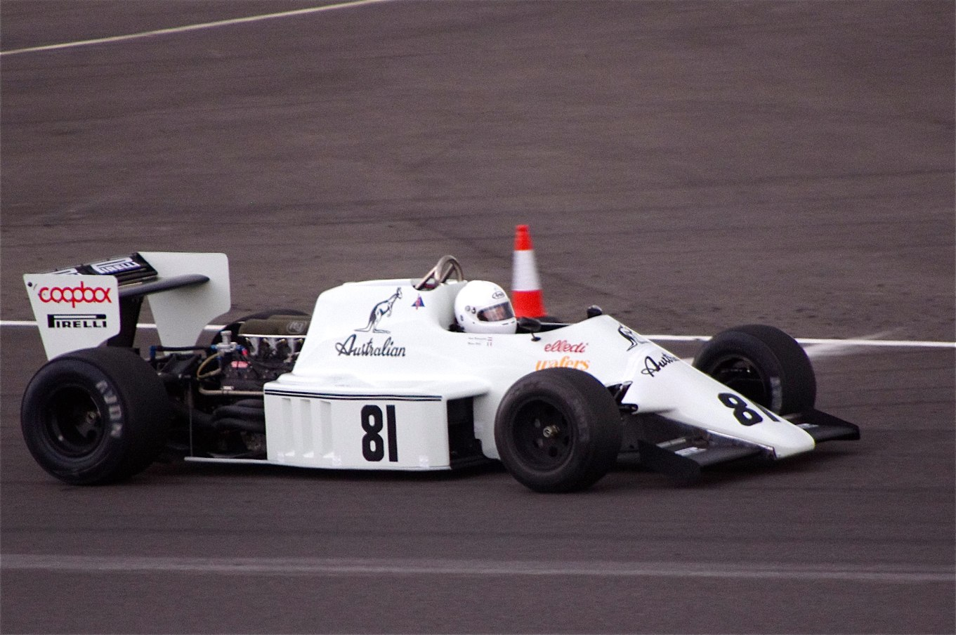 Silverstone Classic 2011